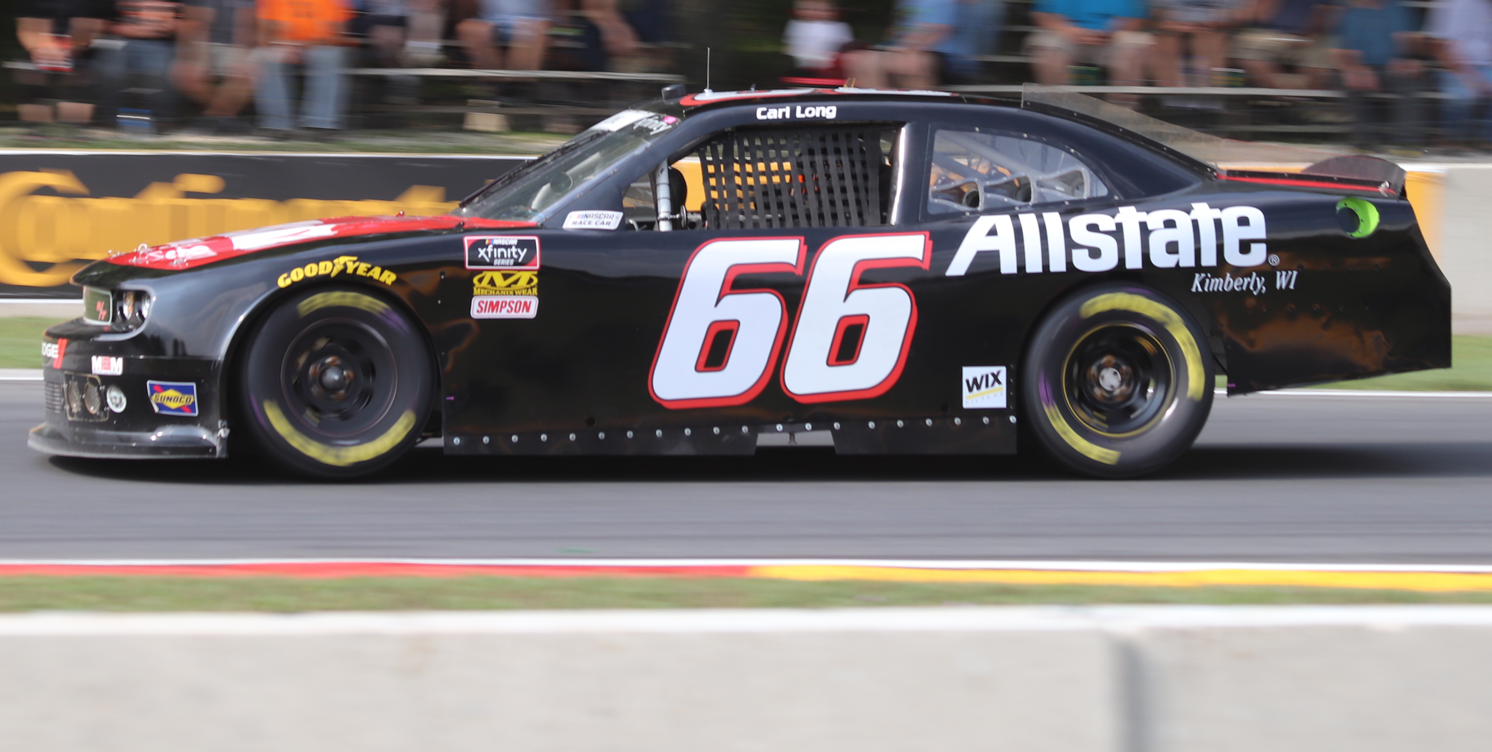 The Dodge Challenger of Carl Long at the NASCAR Xfinity Series Johnsonville 180.